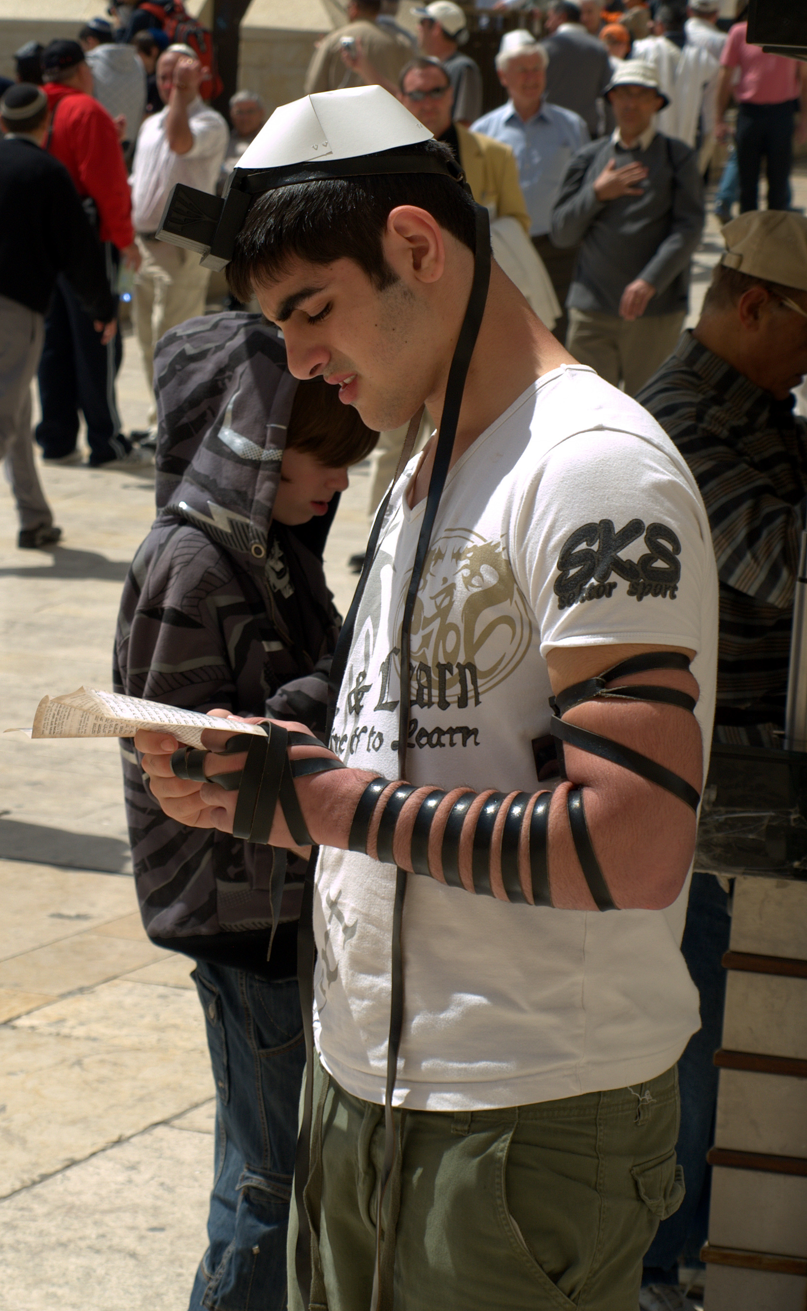 A man at the Western Wall wearing both hand and head Tefillin.